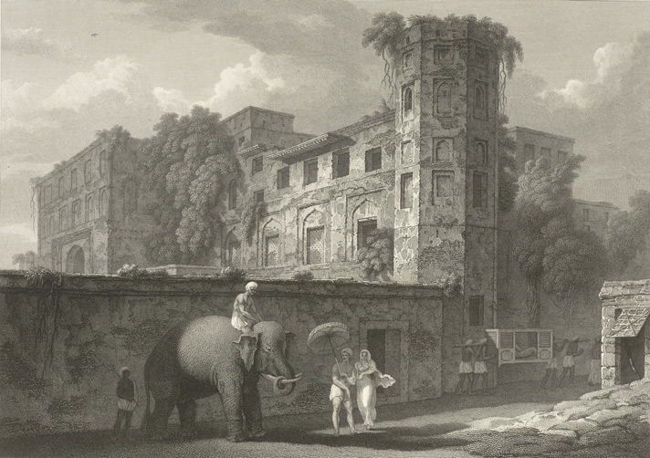 This etching is derived from plate 6 of Charles D'Oyly's 'Antiquities of Dacca'.The Bara Katra (Great Quadrangle Building) is situated on the eastern bank of the River Buriganga near the centre of Dhaka city. It was built by Abul Qasim in 1664 as a caravanserai or resting-place for merchants and their camel trains.The word katra is probably derived from the Arabic for cupola, but similar words in Persian (meaning tent or pavilion) and Sanskrit (meaning umbrella) also exist. In front of it lay a large cannon, half-buried in the sand, which became submerged by water during the rainy season. Historian James Atkinson described the building, with its high, octagonal turrets as "a stupendous pile of grand and beautiful architecture".